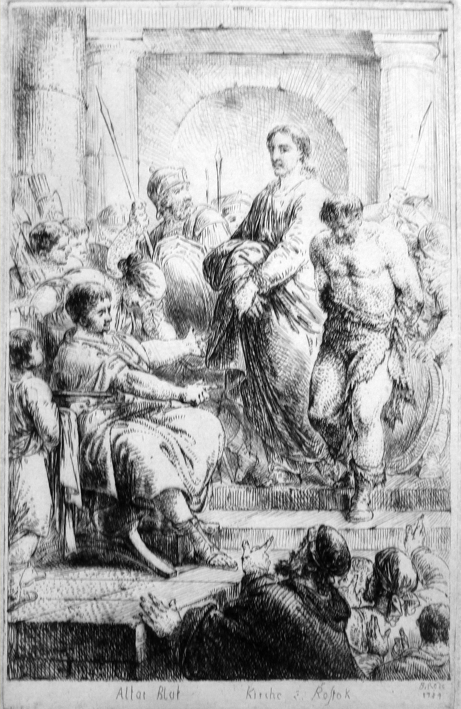 Jesus and Barabbas before the Judgment Seat of Pilate. Engraving by Bernhard Rode, 1789.